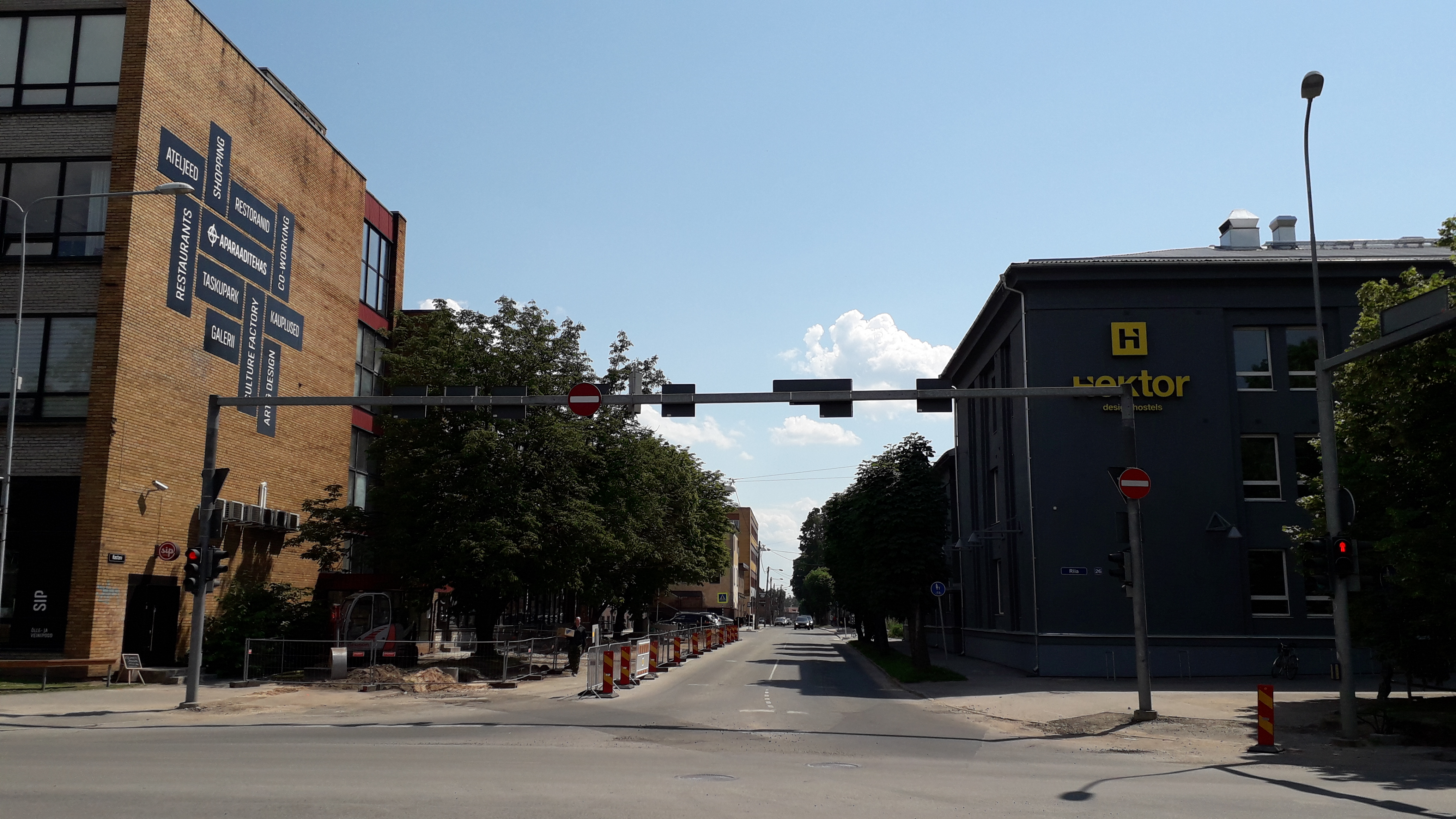 Kastani street